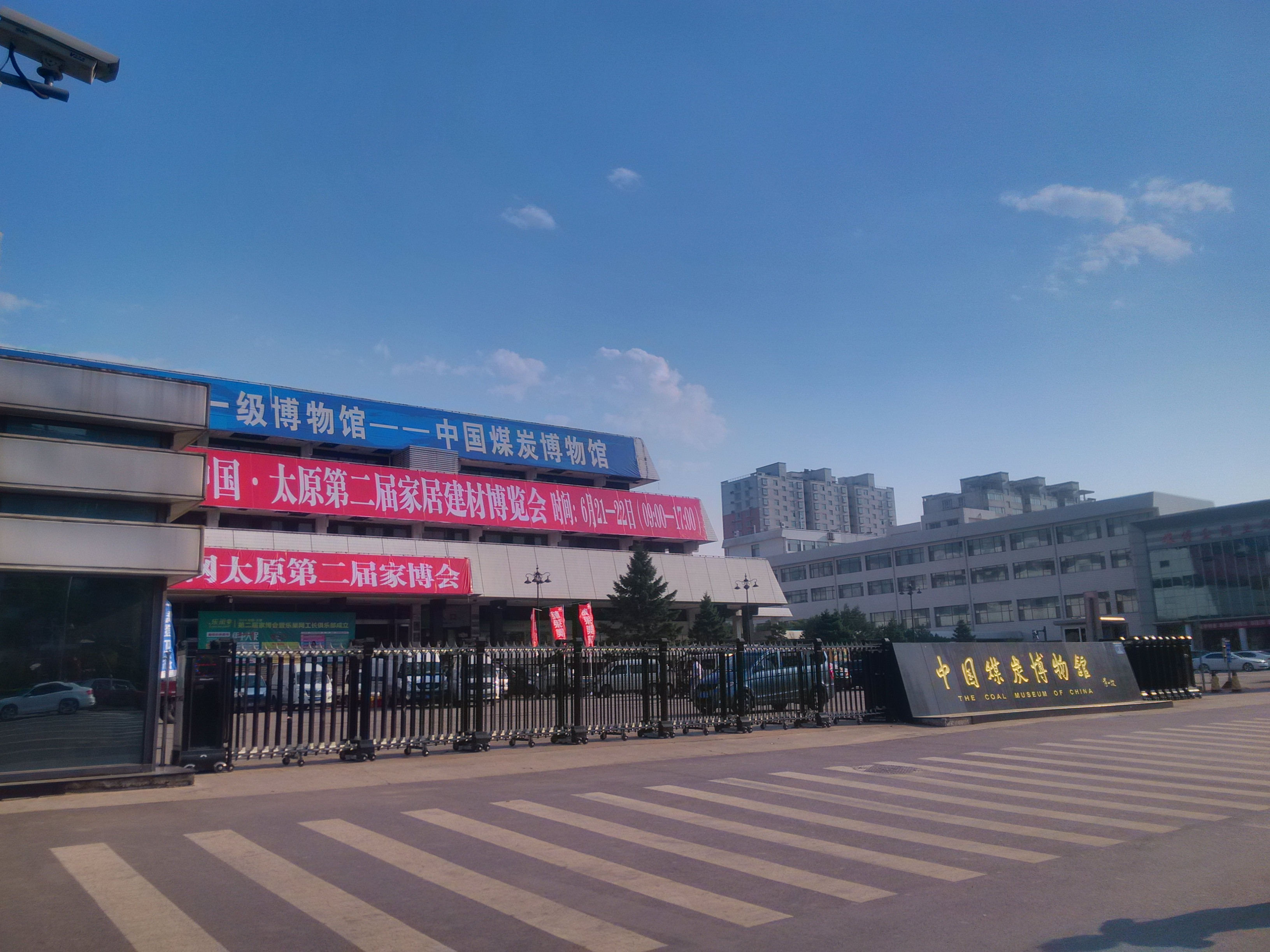 The Coal Museum of China.